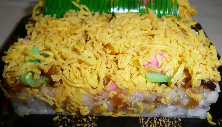 Omurazushi (Sushi - Omura City, Nagasaki, Japan)